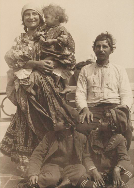 Gypsy family from Serbia . More information here.